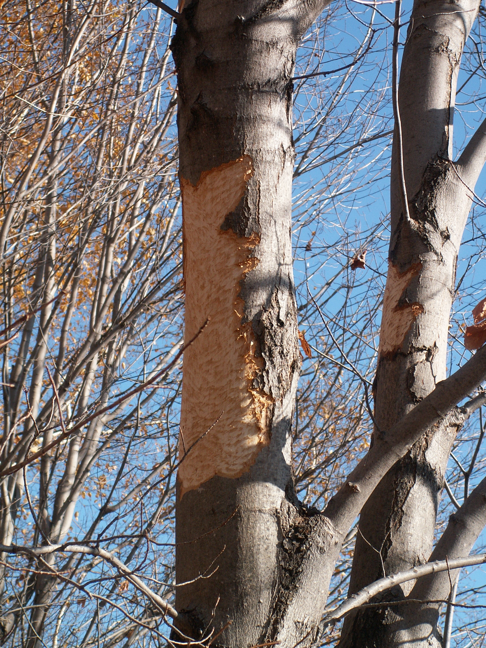 Bark of Sugar Maple (Acer saccharum) eaten by North American Porcupine (Erethizon dorsatum), Cap Tourmente National Wildlife Area, Quebec, Canada.